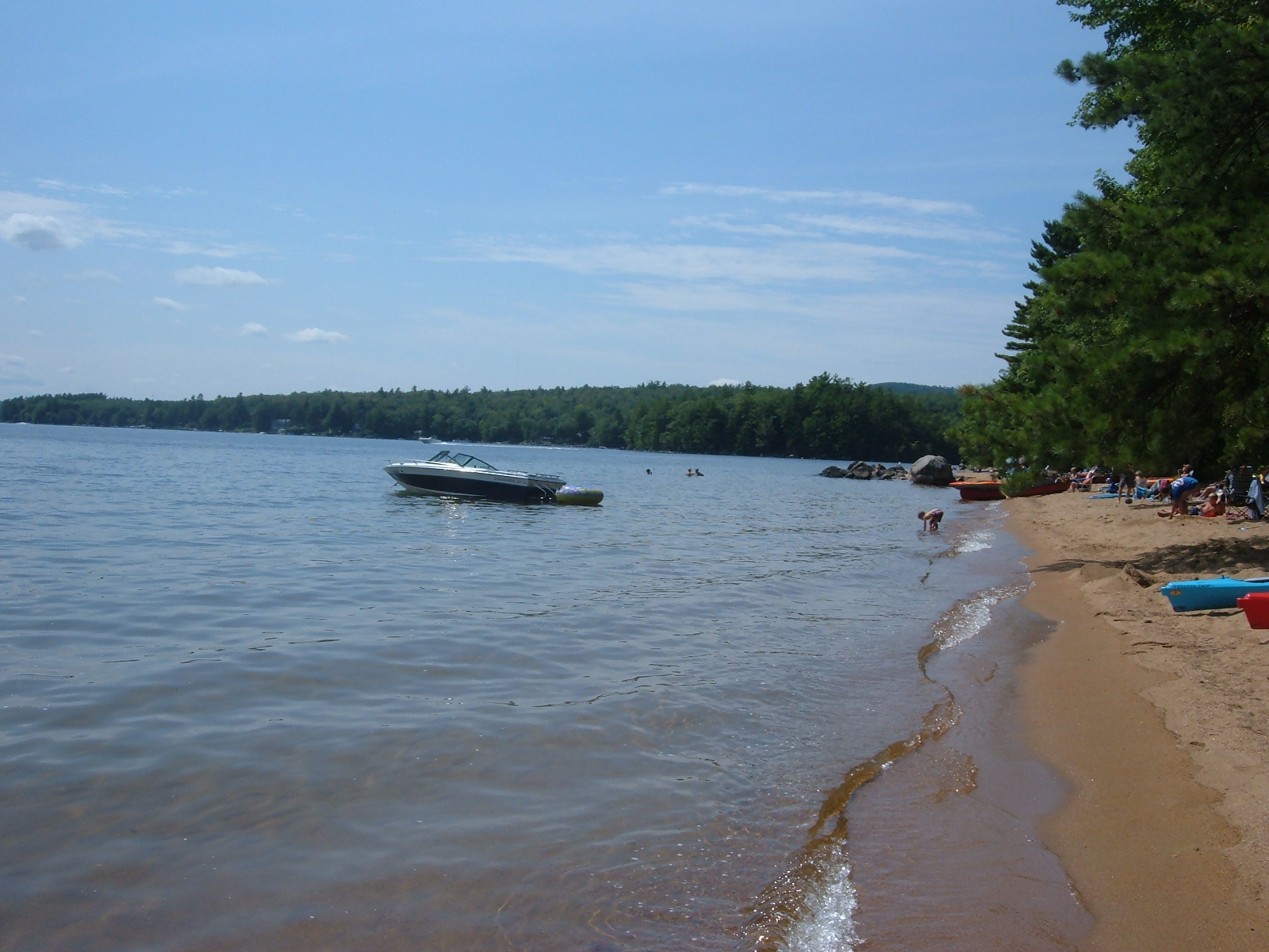 Picture of Sebago Lake State Park Witch Cove beach. Taken in 2005 by M. Croft